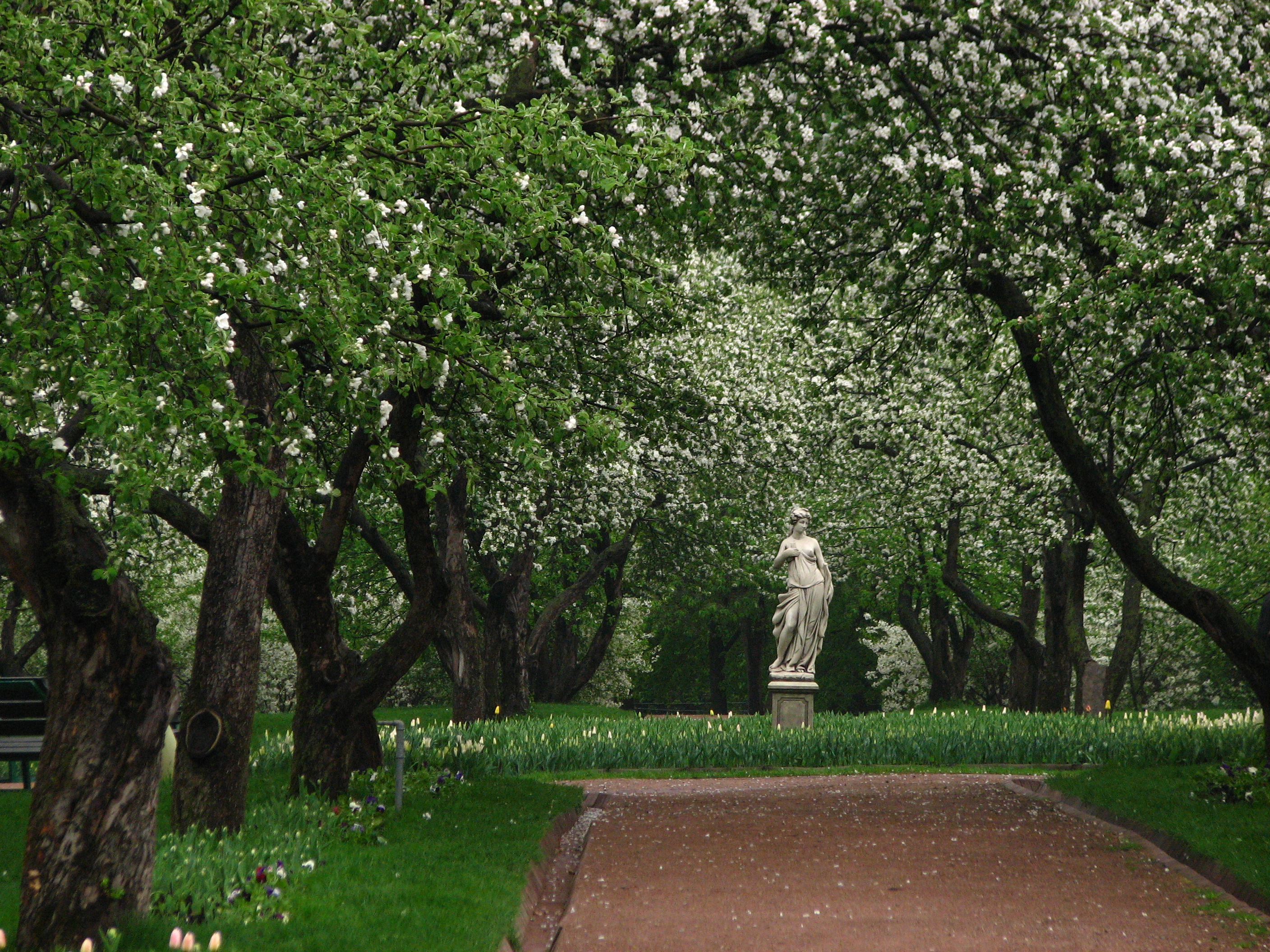 Apple orchards in Kolomenskoye (Moscow). Spring.